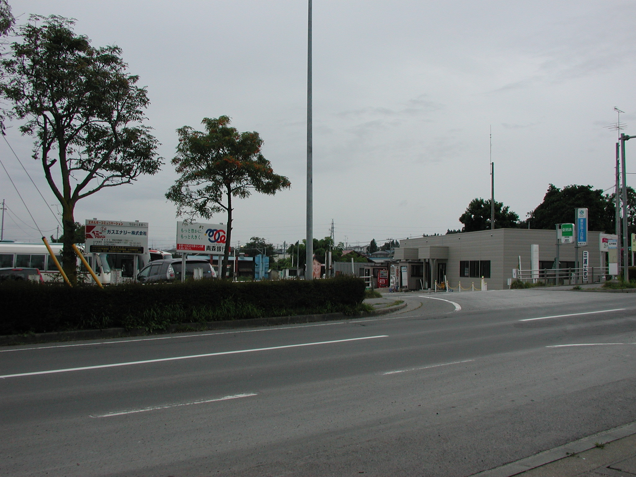 Nanbu Bus Gonohe Depot